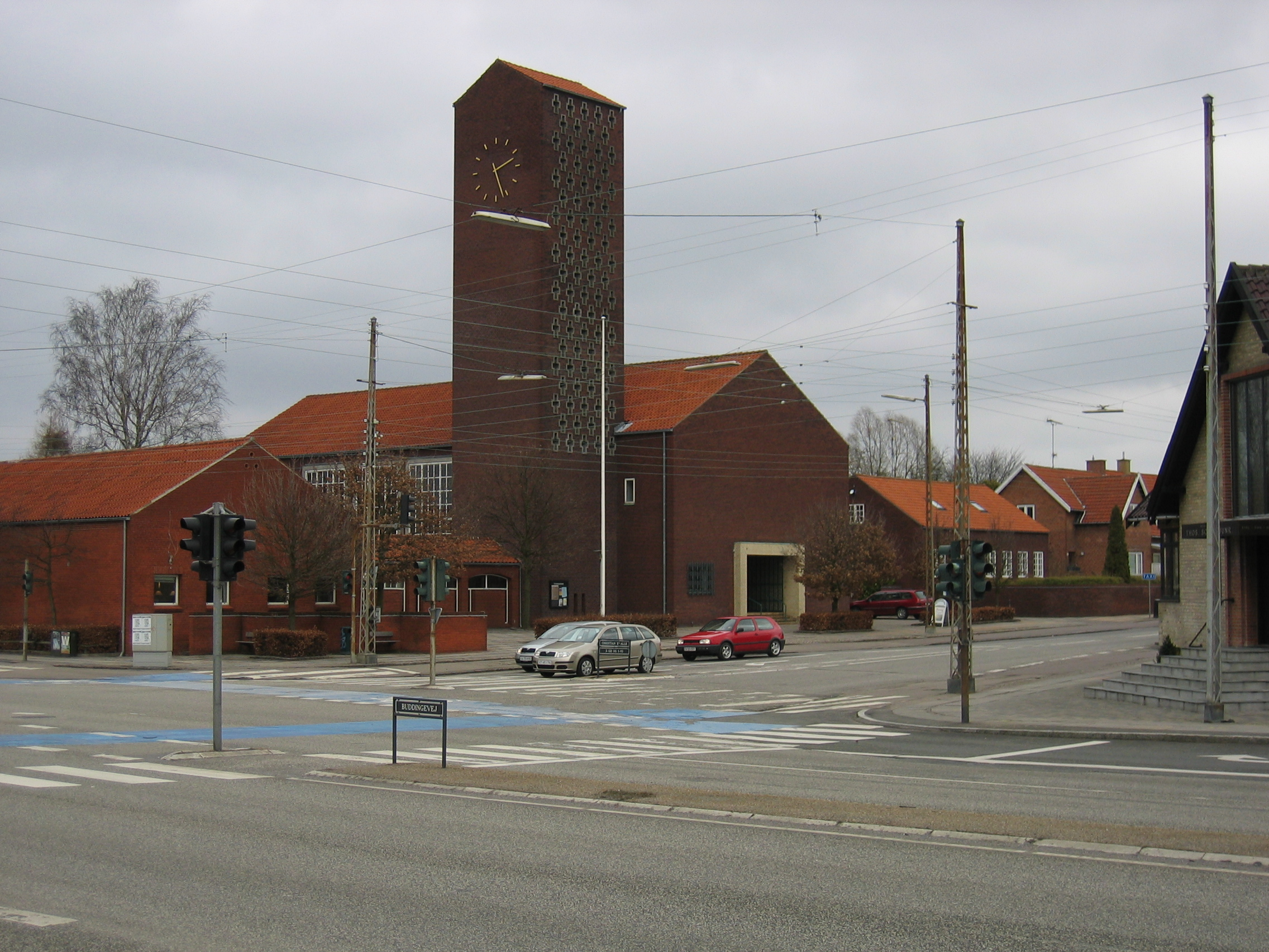 Christianskirken, Christian Parish, Sokkelund Herred, Copenhagen County